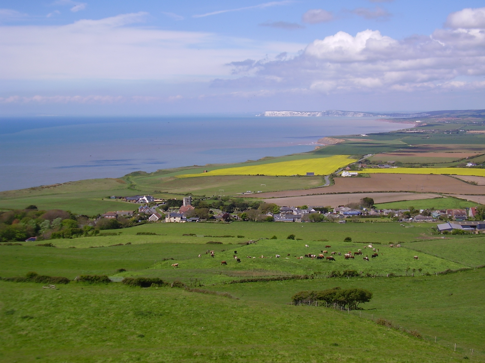 View north-west from St Catherine's Down, Isle of Wight, UK, with the village of Chale in the foreground and the white cliffs of Tennyson Down and the Needles in the distance.